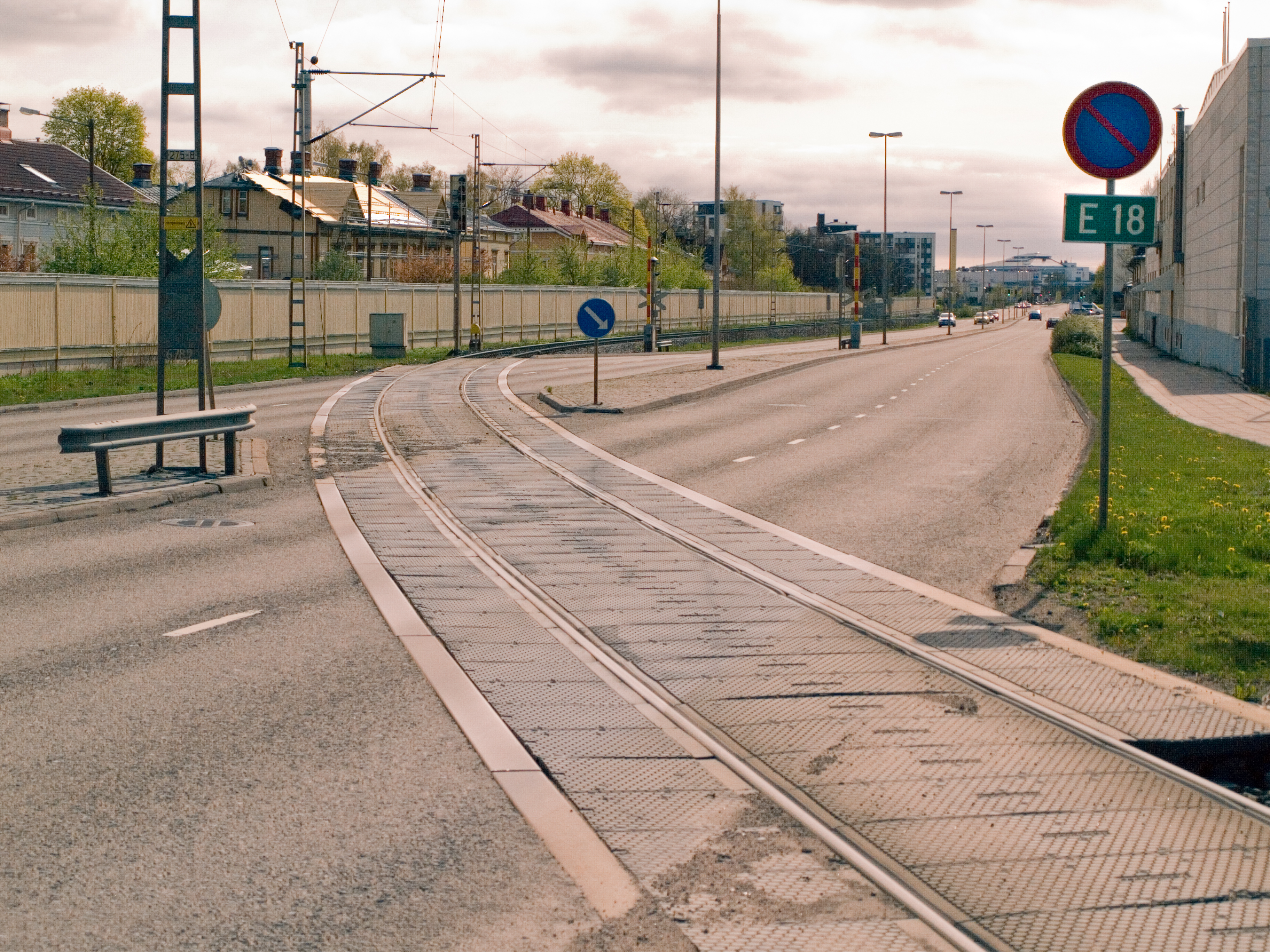 The railway to the passenger harbour crosses the Pansiontie (this section now called Tukholmankatu) street. Wooden buildings of Port Arthur (or Portsa, officially VIII District) in the background. May 2014.